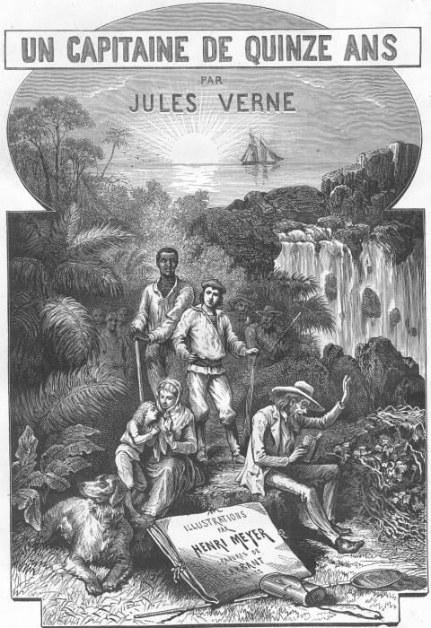 An ilustration from "Dick Sand, A Captain at Fifteen" by Jules Verne painted by Henri Meyer.